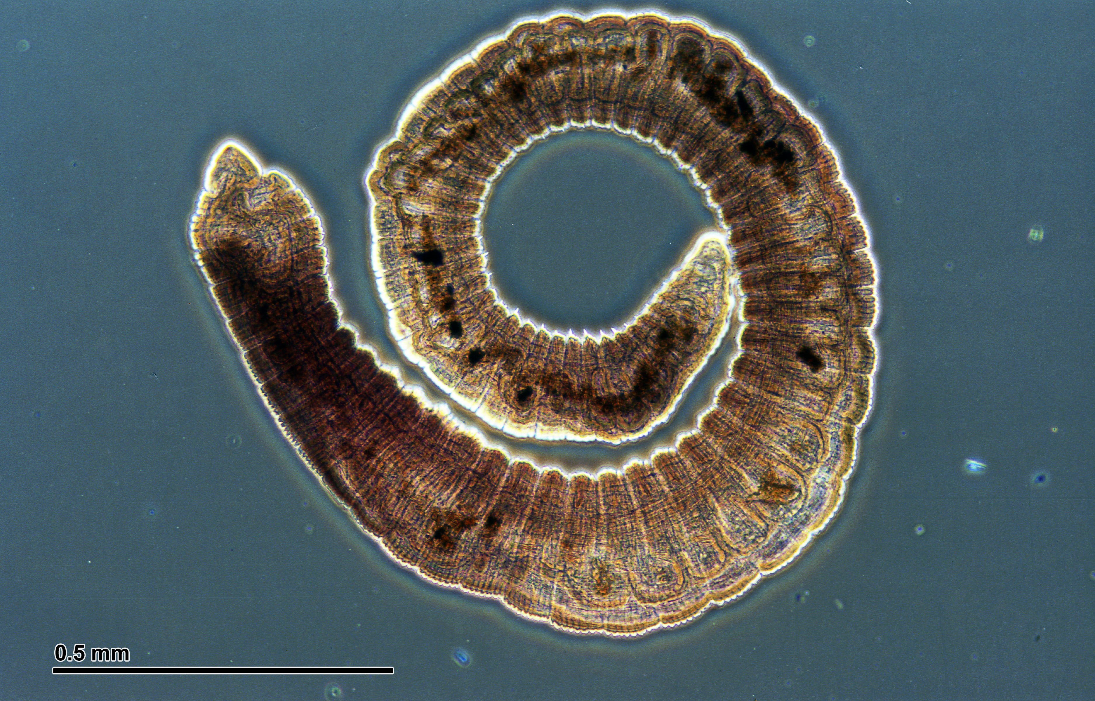 White worms (Enchytraeus albidus): Total preparation. Stain: Yes. Optical microscopy technique: Negative phase contrast. Magnification: 160x (for picture width 26 cm ~ A4 format).